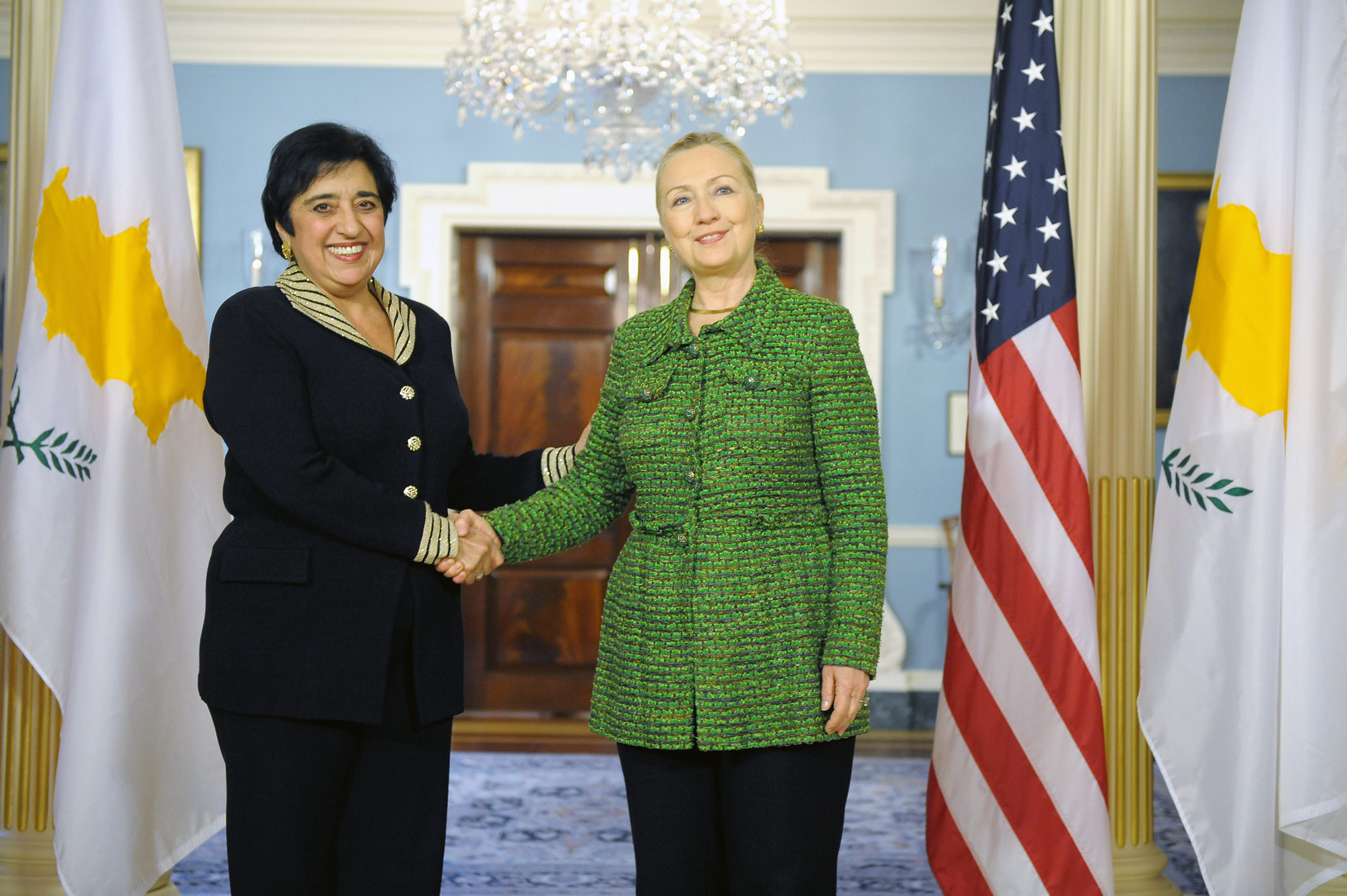 U.S. Secretary of State Hillary Rodham Clinton meets with Cypriot Foreign Minister Erato Kozakou-Markoullis at the U.S. Department of State in Washington, D.C., on December 20, 2011. [State Department photo/ Public Domain]